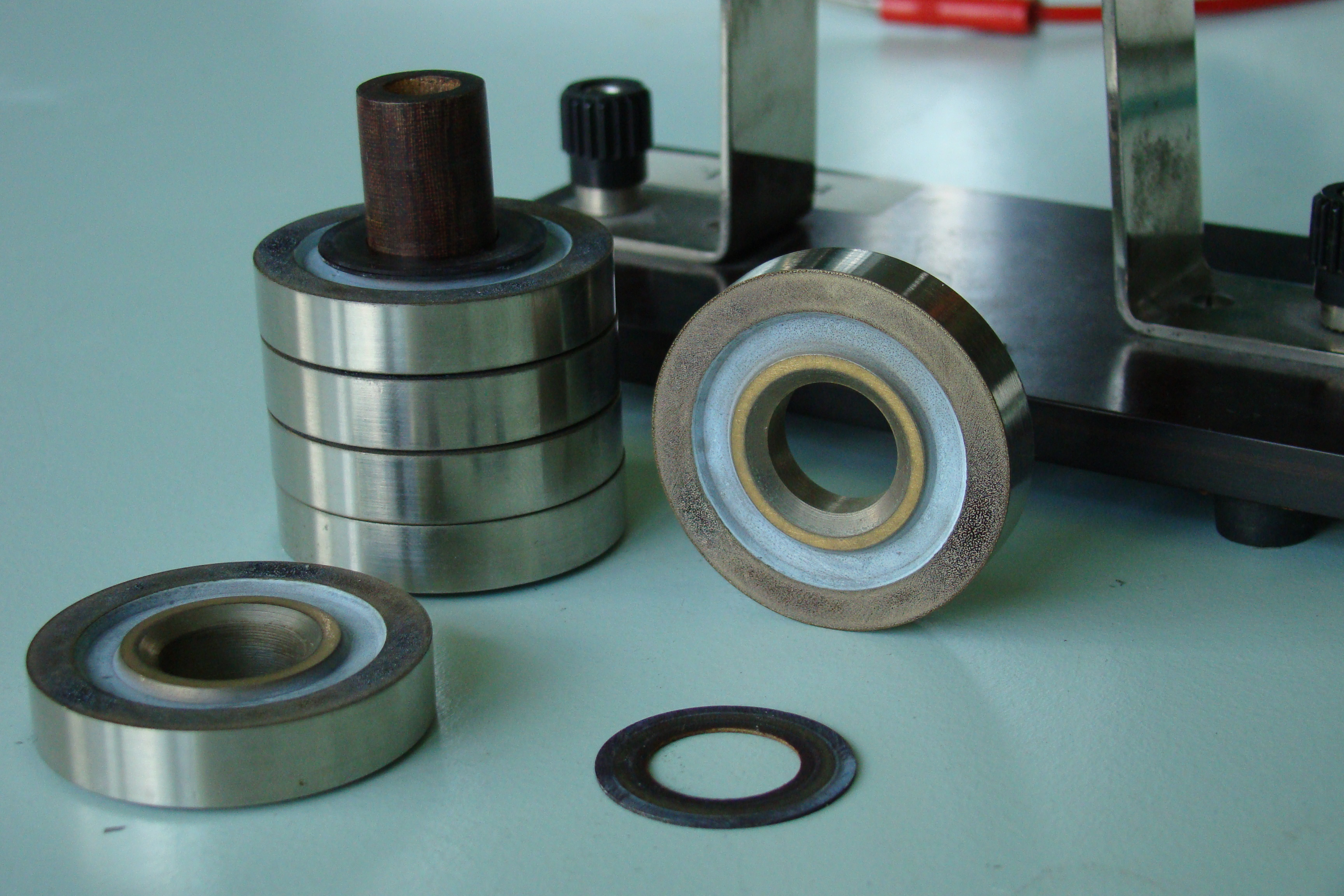 Parts of a multiple spark gap for a Tesla coil